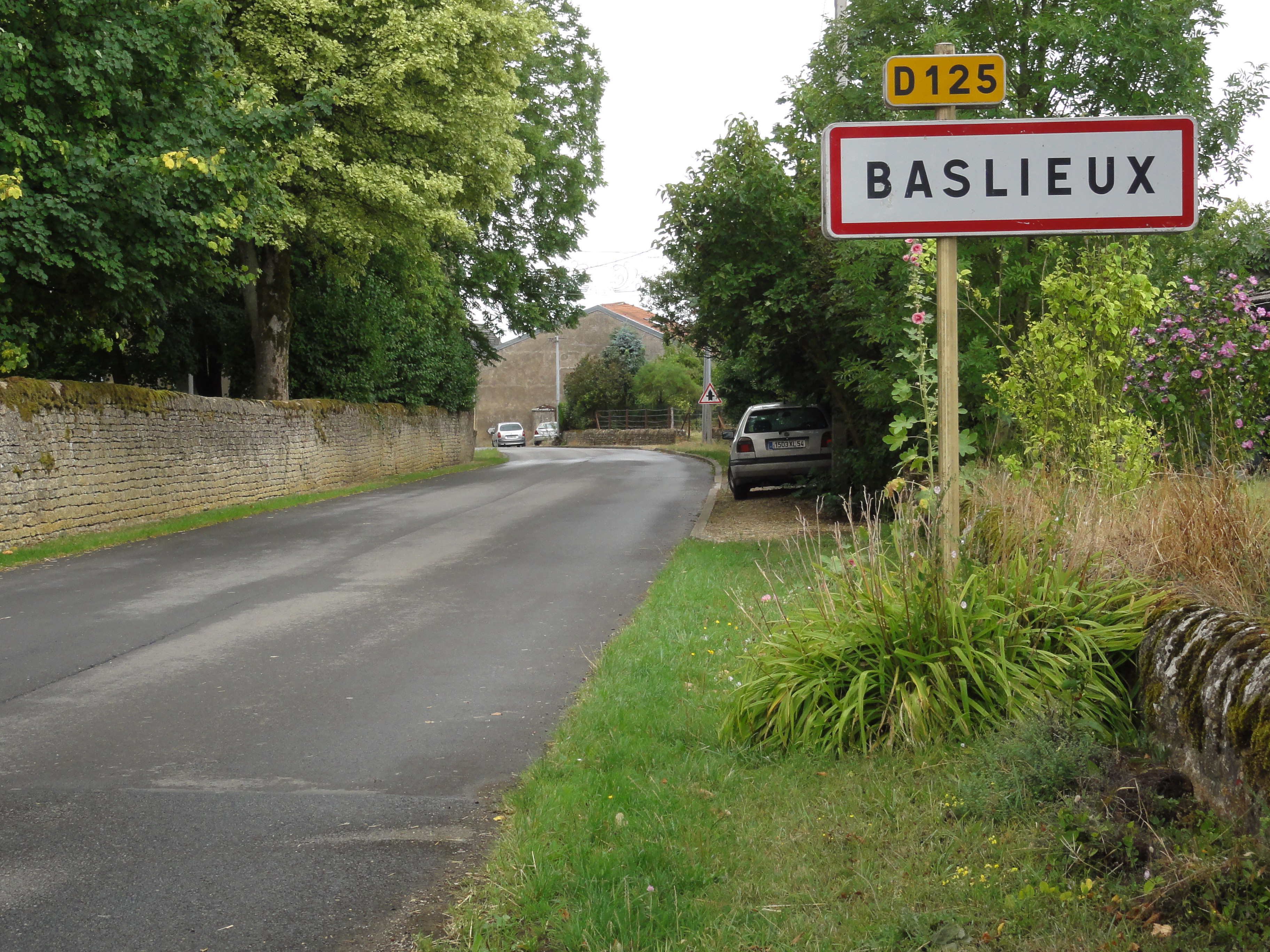 Baslieux (Meurthe-et-M.) city limit sign